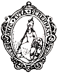 St Petersburg State University Emblem